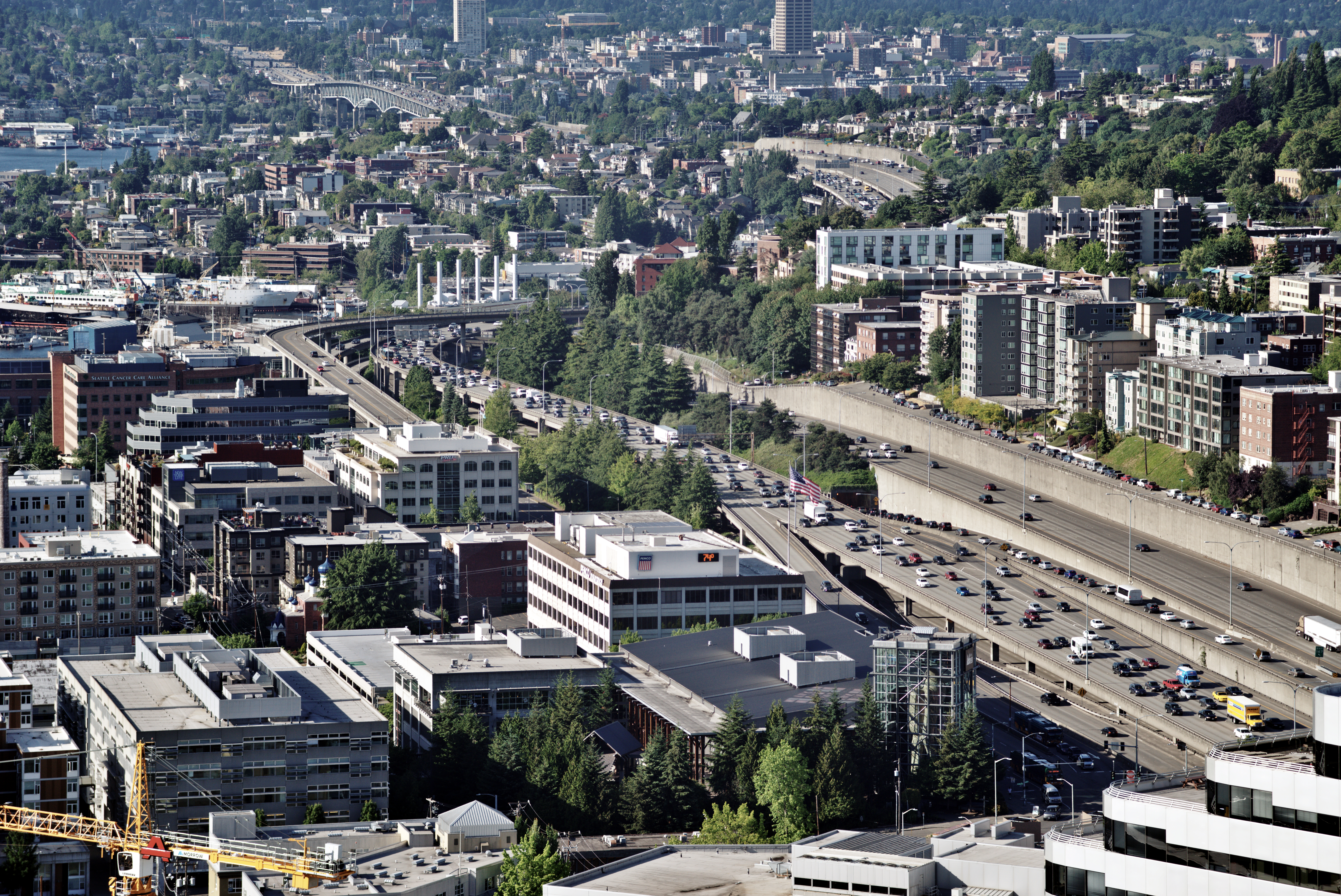 The Interstate 5, as seen from downtown Seattle looking north, shows a large volume of southbound traffic during rush hour.